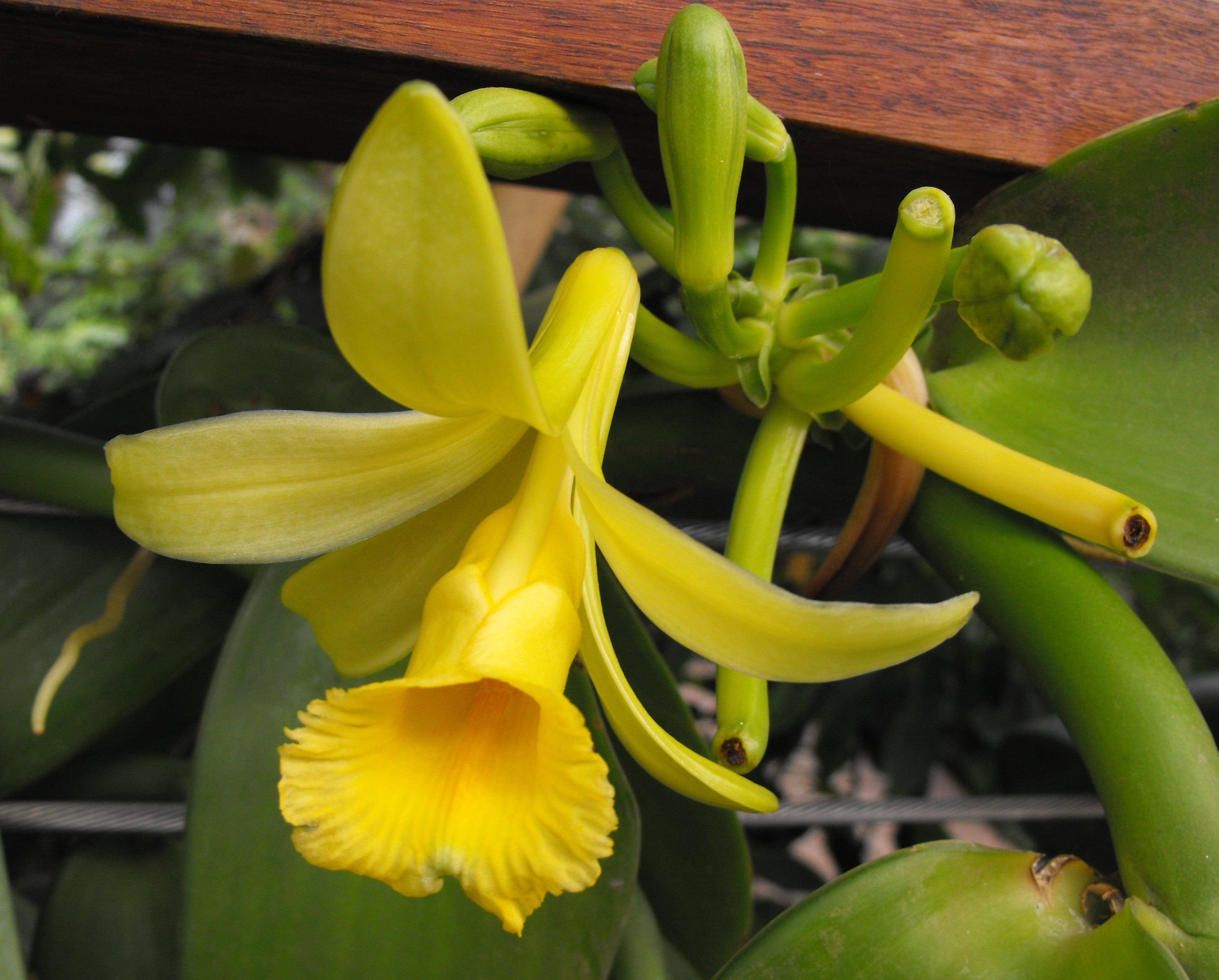 Vanilla pompona at the Huntington Library & Botanical Gardens in San Marino, California, USA. Identified by sign.